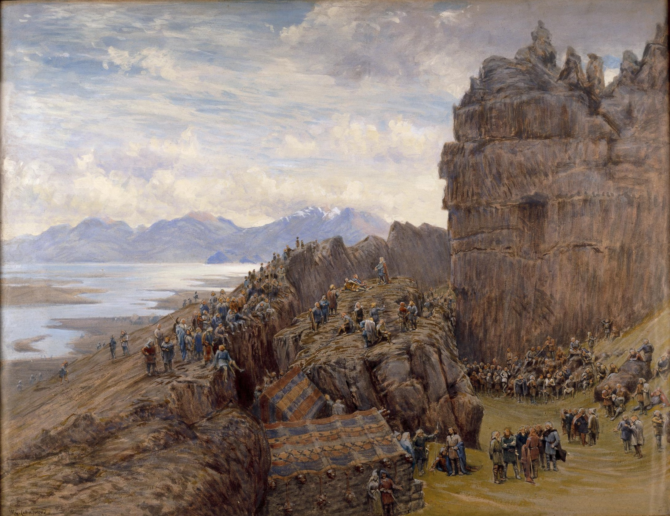 Málverk Alþingi, Althingi, Þingvellir, Thingvellir, thingvalla, tingvalla, ting